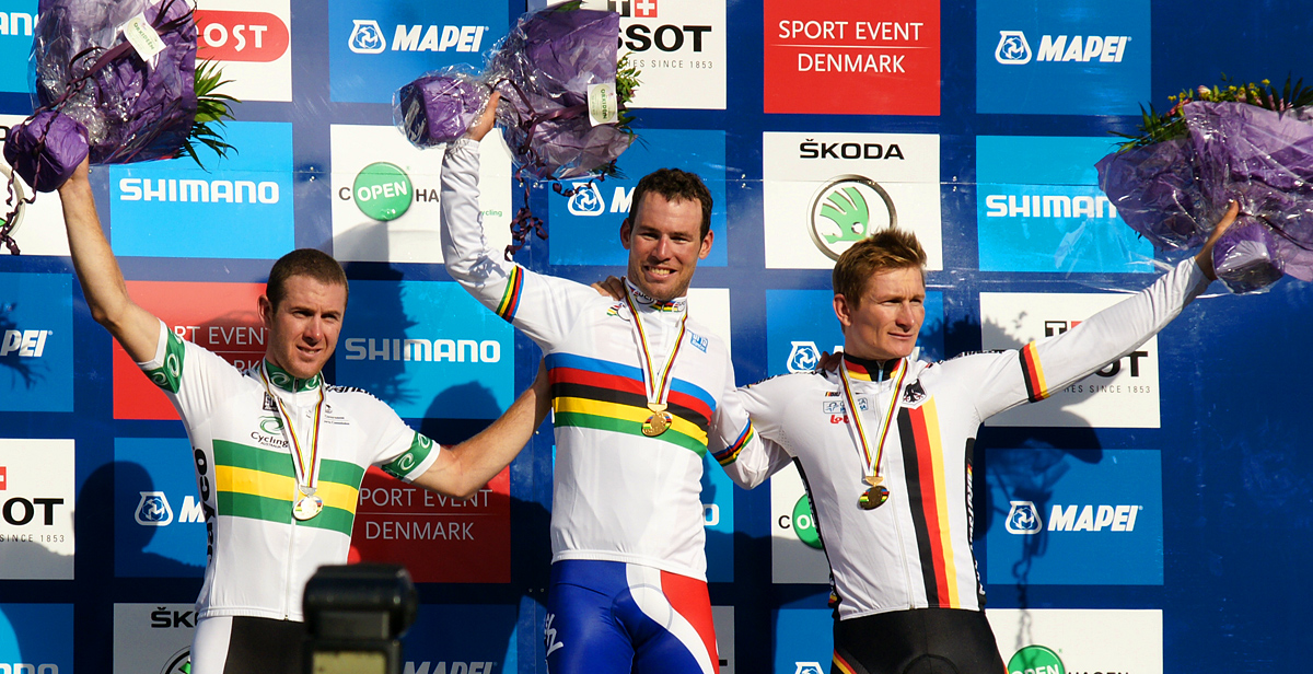 2011 UCI Road World Championships – Men's road race - The podium with runner-up Matthew Goss, Australia (left) the winner and world champion Mark Cavendish, Great Britain (center) and no. 3 André Greipel, Germany (right)